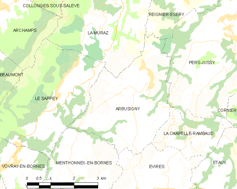 Map of French municipality Arbusigny